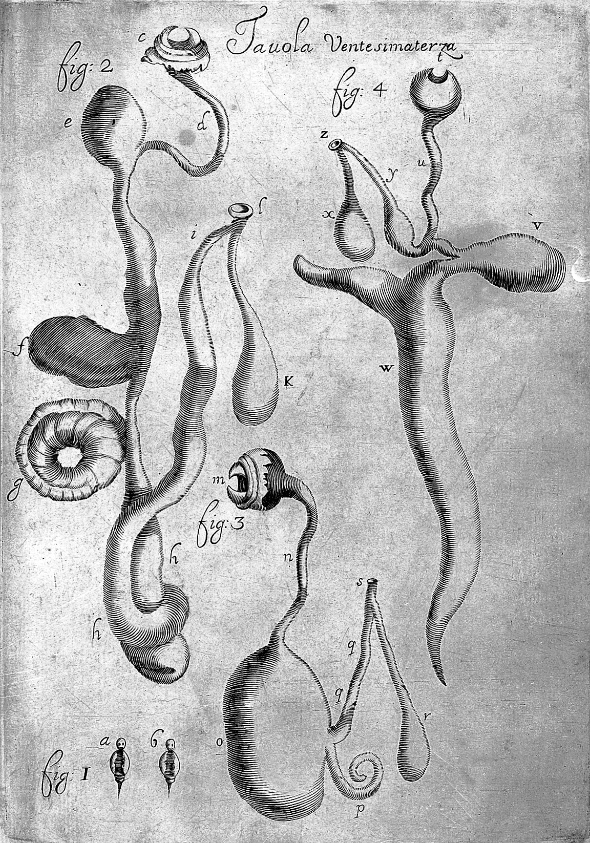 Tabula 23, figure 1: cestode parasites exhibiting homuncular form. Rare Books Keywords: 1684; homunculus